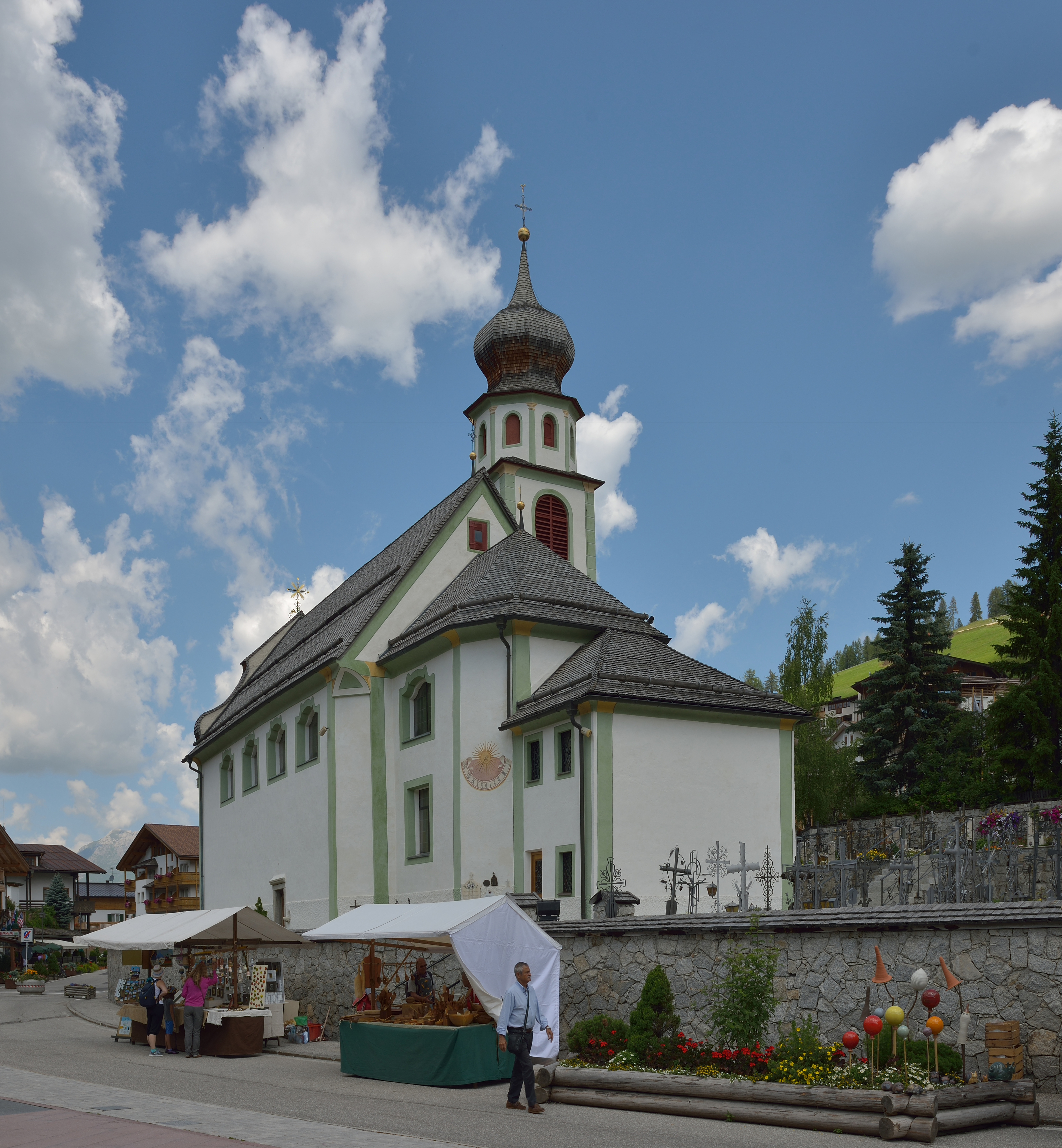 Parish Church of San Ćiascian